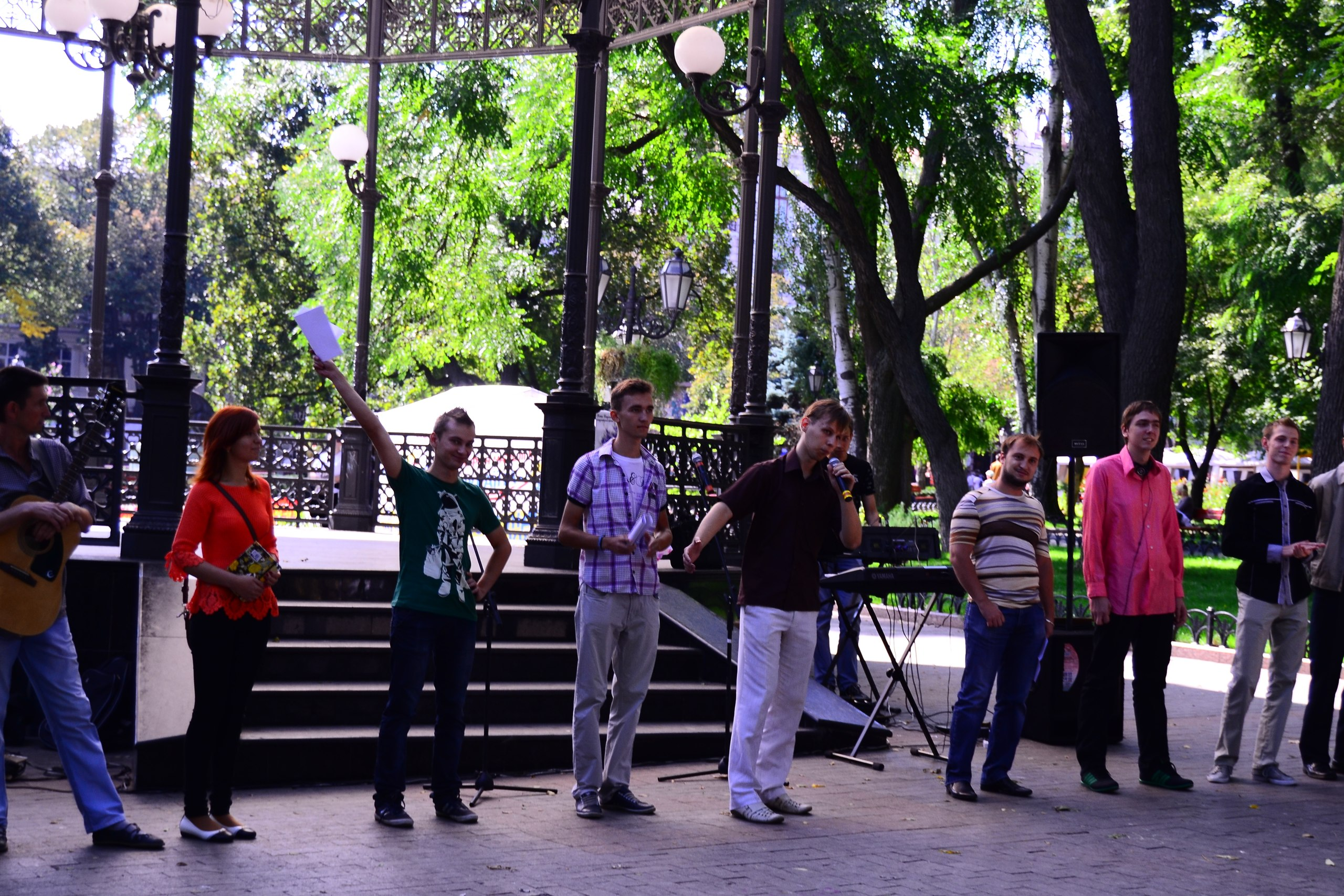 Участники УИ в Одессе